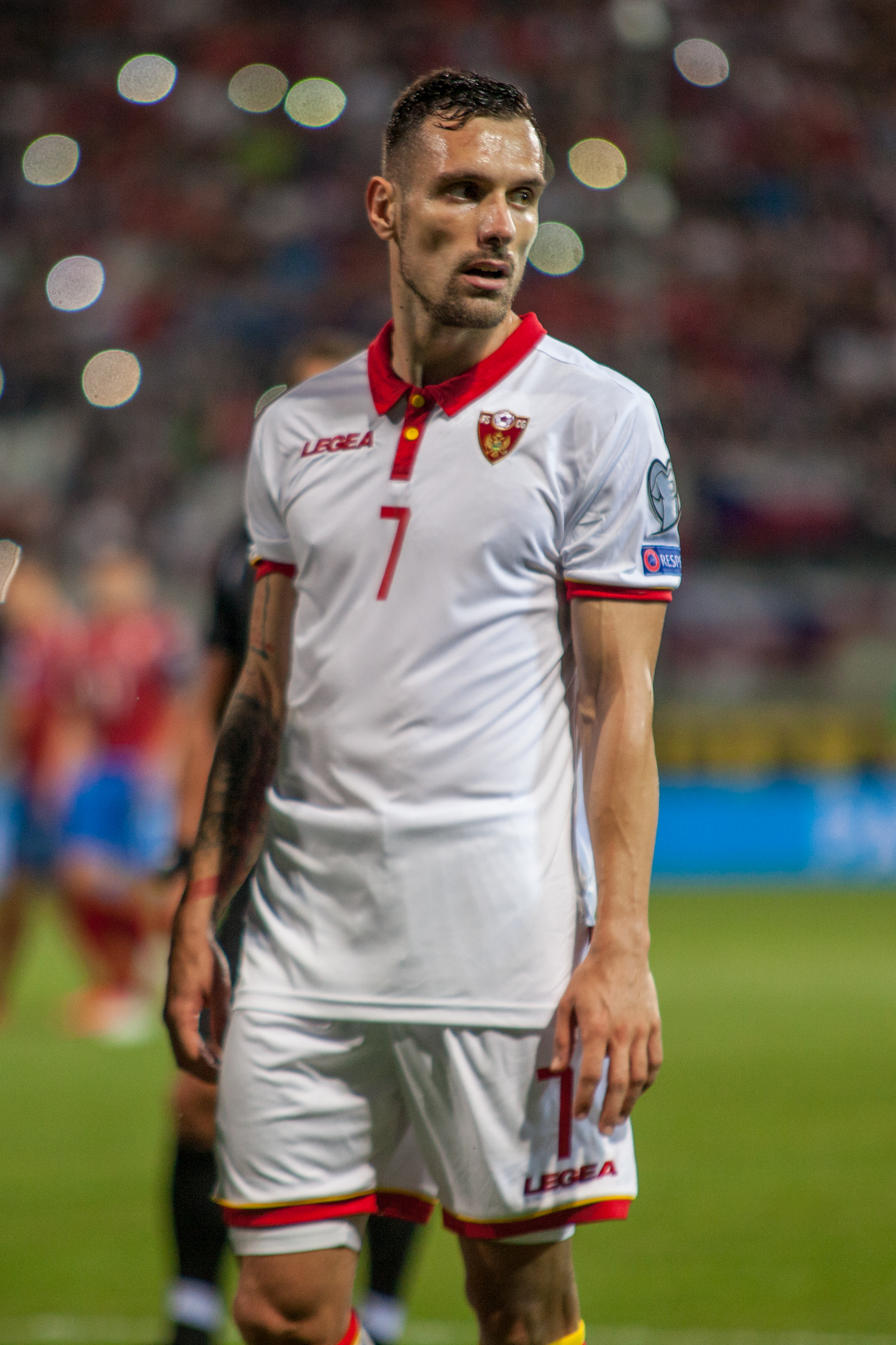 Marko Vešović at EURO 2020 Qualifying Round Czech Republic-Montenegro (10/6/2019, Ander Stadium, Olomouc) Personality rights warningAlthough this work is freely licensed or in the public domain, the person(s) shown may have rights that legally restrict certain re-uses unless those depicted consent to such uses. In these cases, a model release or other evidence of consent could protect you from infringement claims.